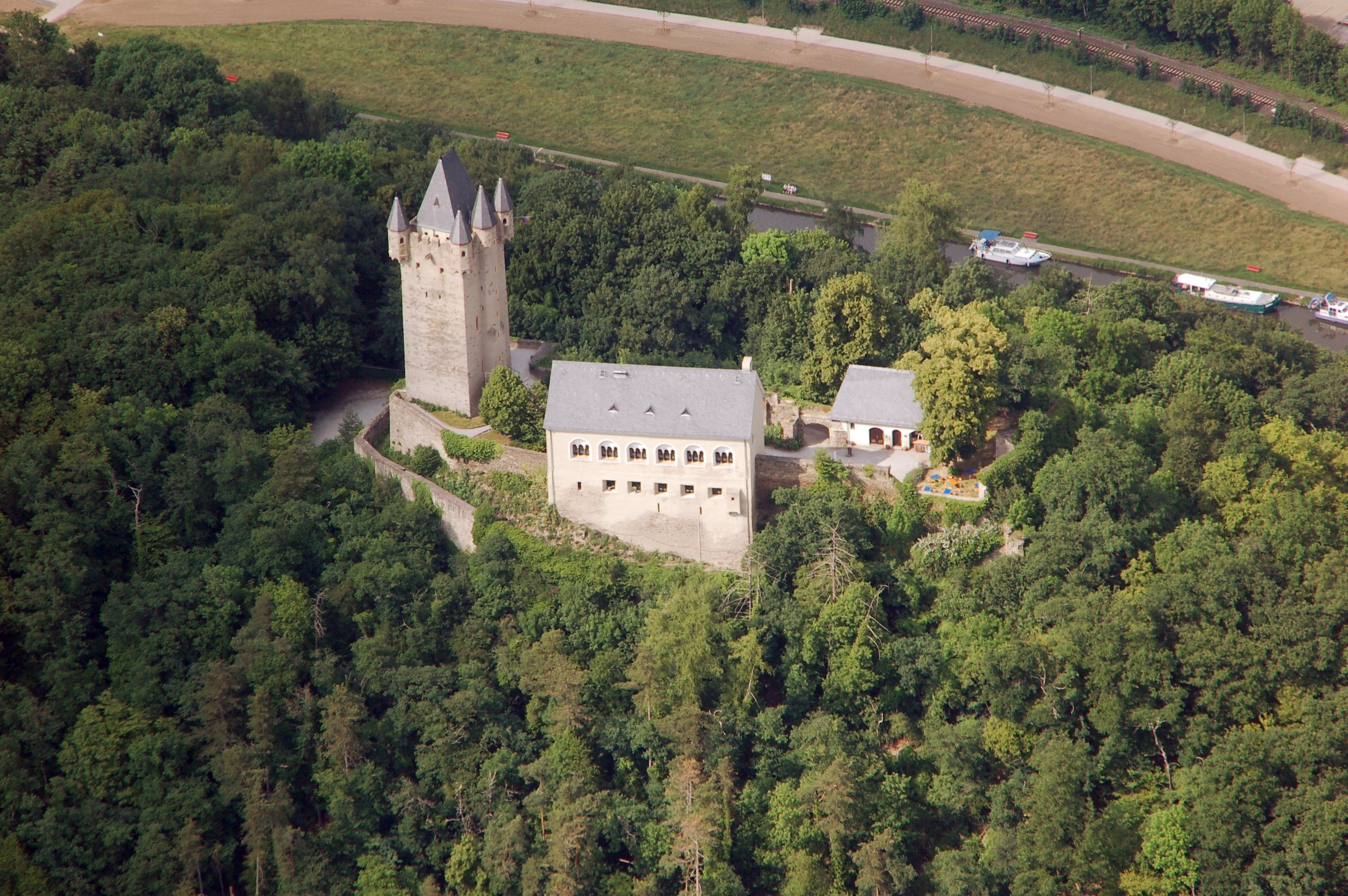 Aerial photograph of Nassau, Rhineland-Palatinate, Germany